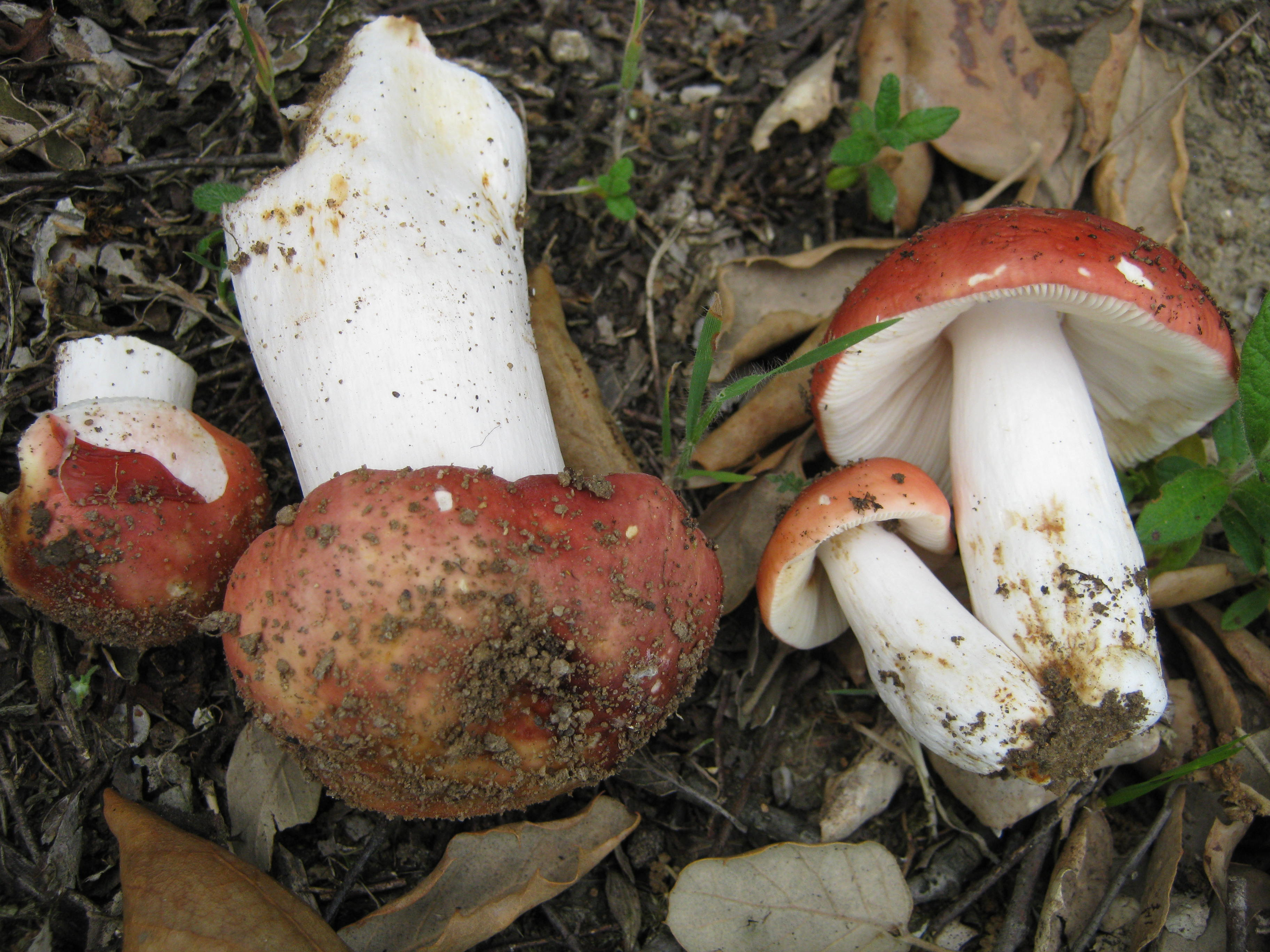 Russula lepida Image location: Lourinhã, Portugal Found under Quercus trees. Taste and odor light menthol. Based on microscopic features For more information about this, see the observation page at Mushroom Observer.